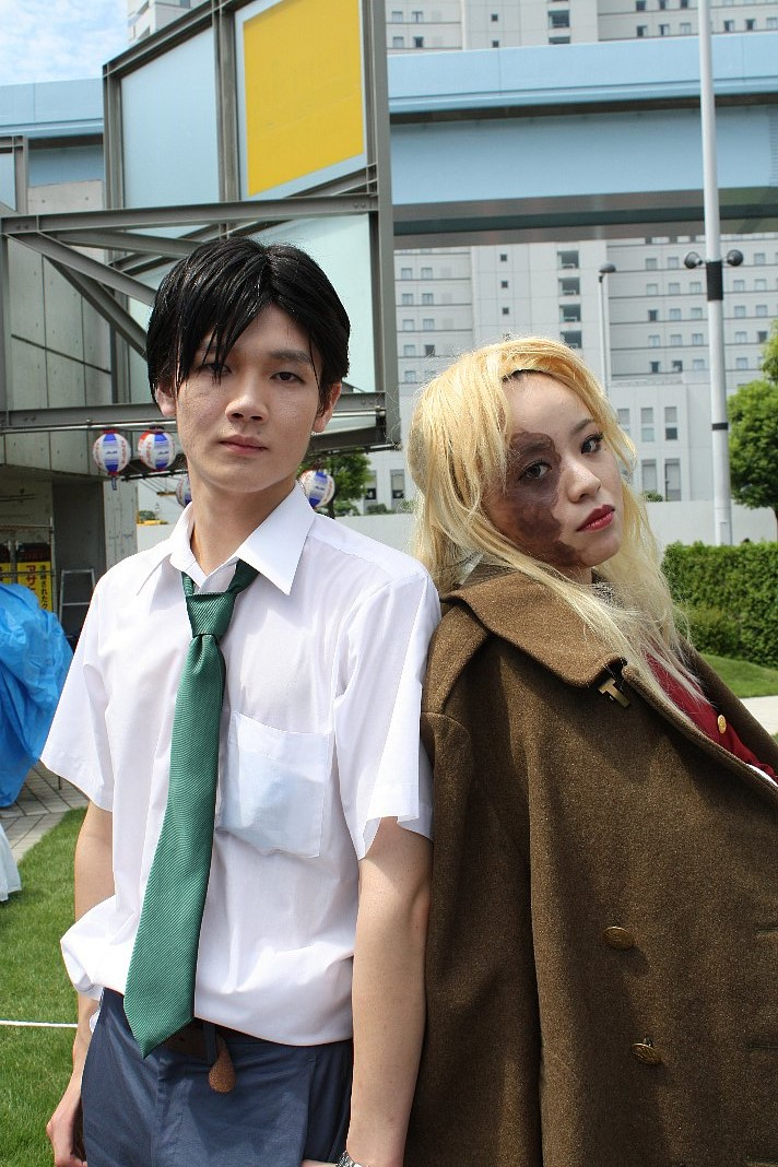 Black Lagoon cosplayer at C77.